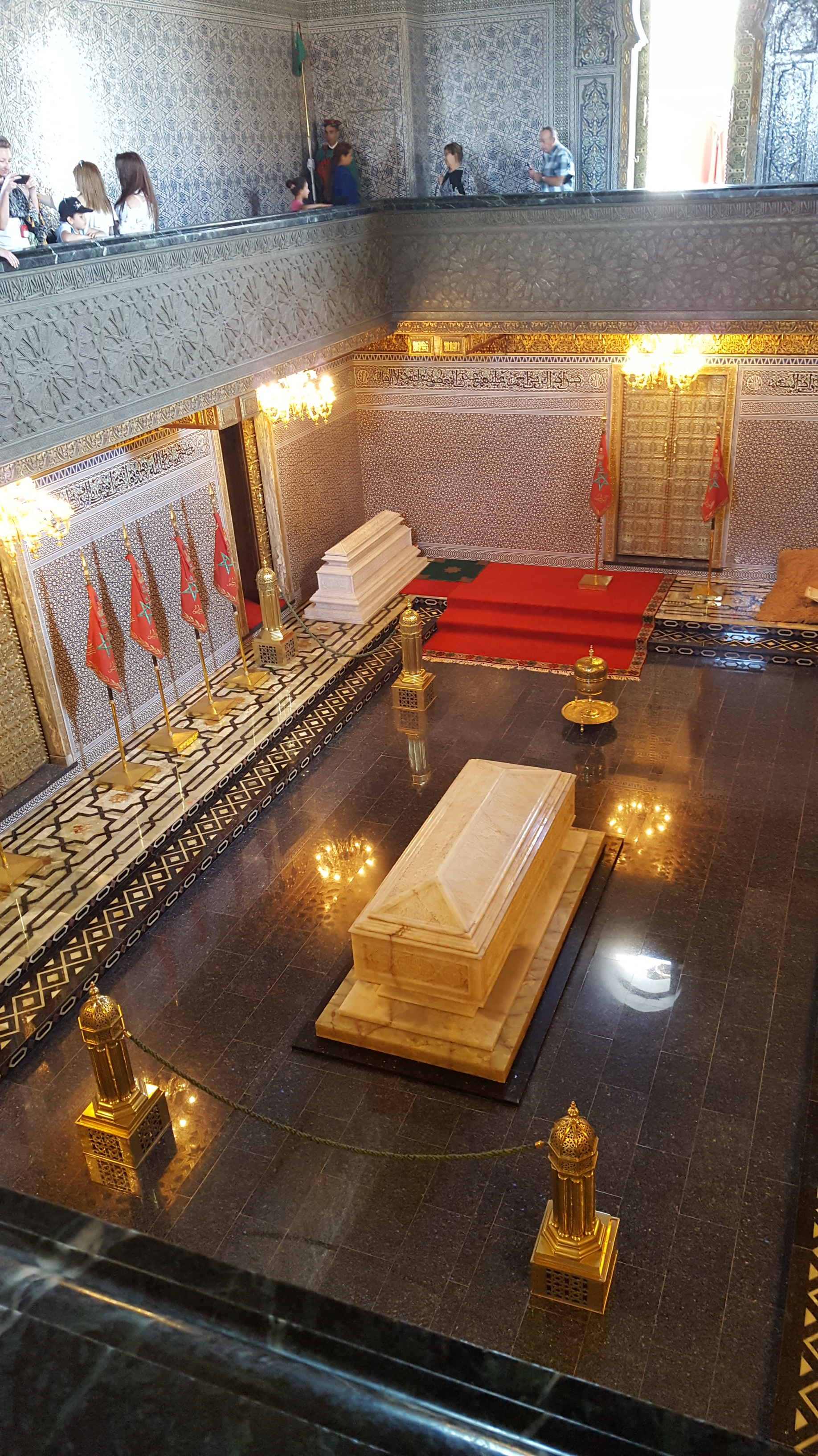 Interior of the mausoleum of Sultan Muhammad V in Rabat